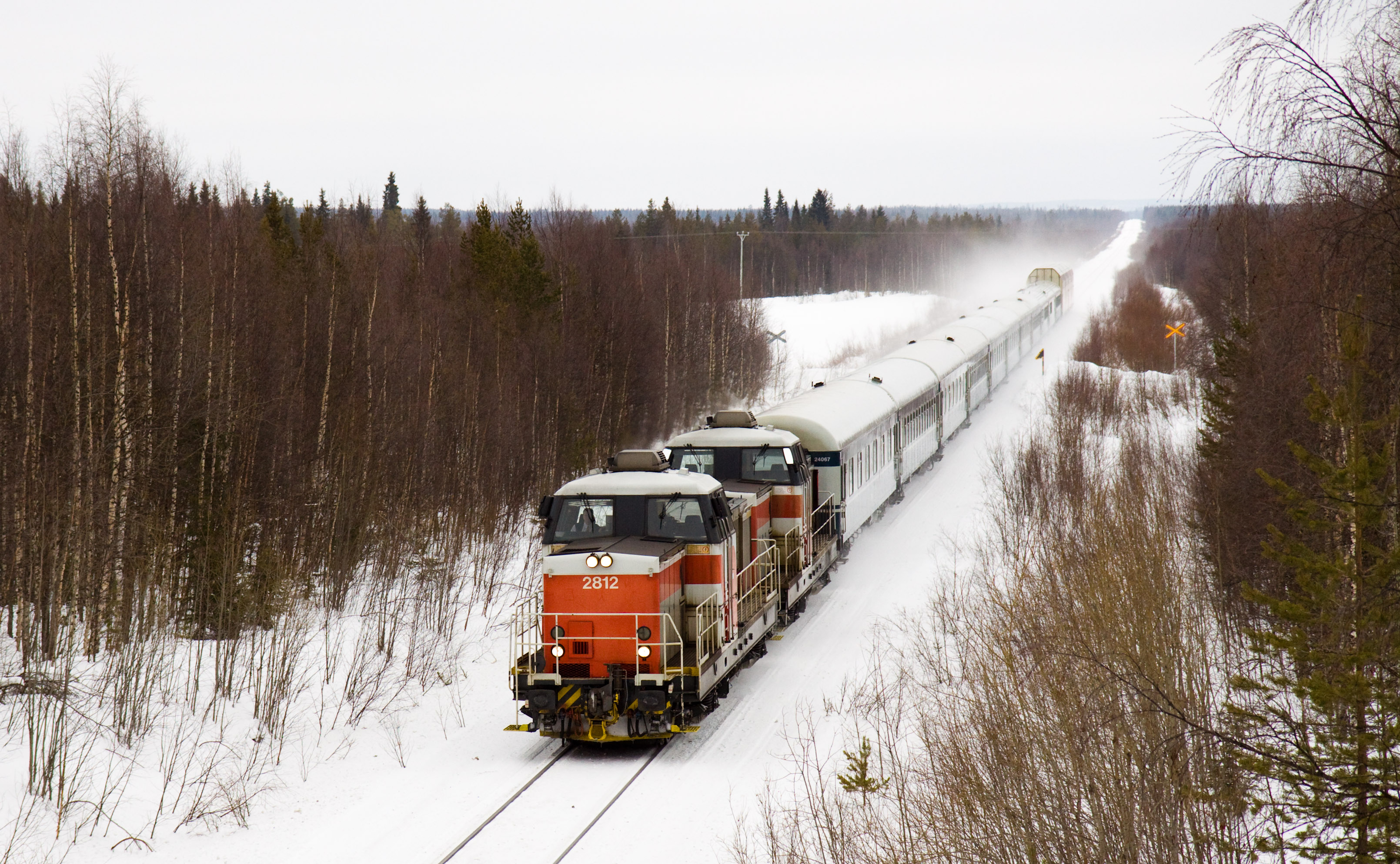 Night train from Helsinki just outside Kolari, its terminal and Finland's northernmost railway station. The train is hauled by two Dr16 locomotives.